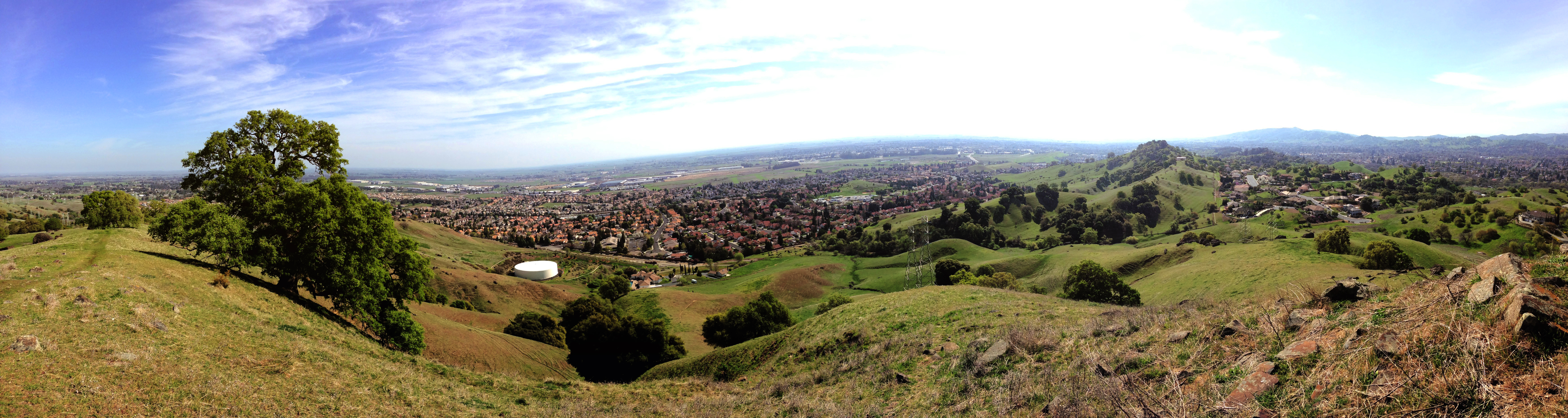 View of the Browns Valley Neighborhood from the top of the Vaca Hills, Early Spring, 2013.